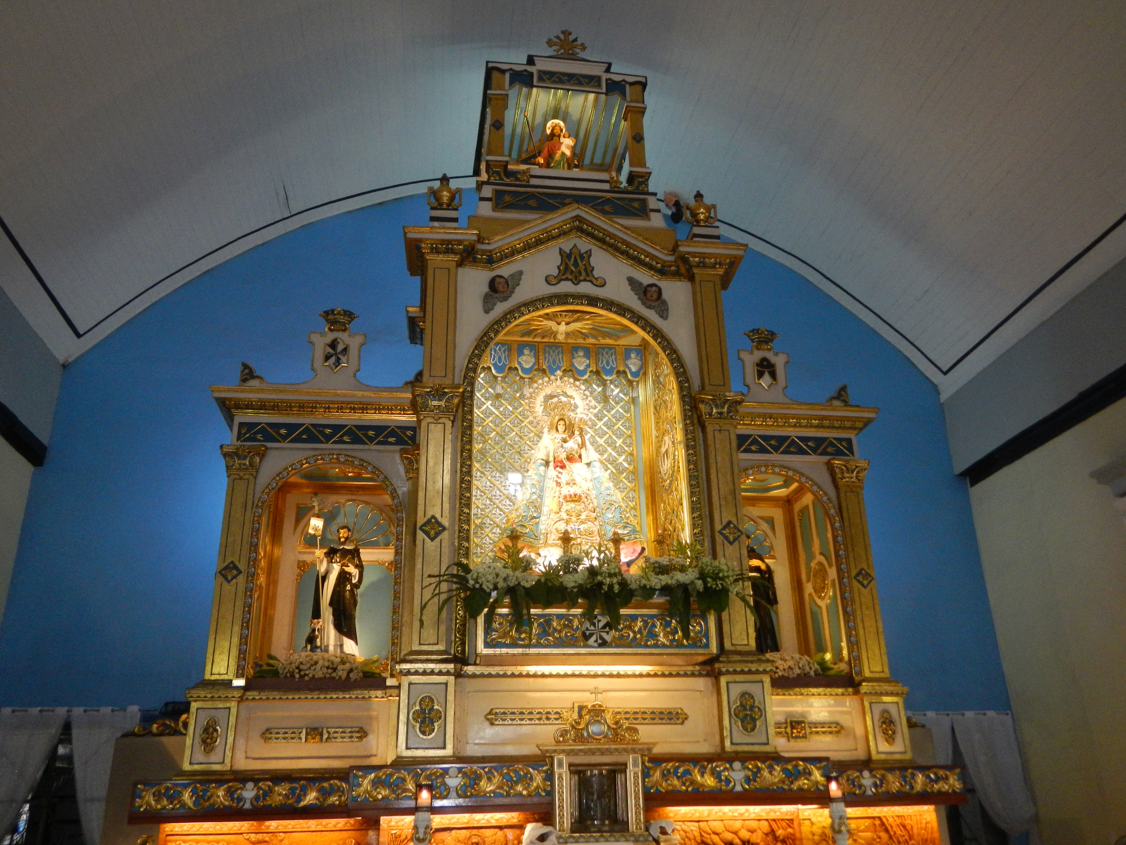 The 2016 Our Lady of Manaoag (Interior and Exterior of the Minor Basilica and Shrine of Our Lady of the Rosary of Manaoag, has been granted a SPECIAL BOND OF AFFINITY with the Papal Basilica of Saint Mary Major in Rome on July 22, 2011; on April 21, 2016 declared as Sanctuary, Pope grants Manaoag shrine the title of ‘minor basilica’, February 17, 2015, in List of barangays in Pangasinan, Barangays of Pangasinan, April 13, 2016 is the Fiesta, Barangay Poblacion, beside Barangay Pugaro, Manaoag, Pangasinan, Pangasinan Province along the Poblacion-Pugaro, Manaoag, Pangasinan Farm to Market Road along the Manaoag-Urdaneta, Pangasinan Provincial Road interconnecting with and from MacArthur Highway (Binalonan, Pangasinan section) and MacArthur Highway (Urdaneta, Pangasinan section) of MacArthur Highway or Manila North Road gateway to Tarlac–Pangasinan–La Union Expressway (TIPLex, Carmen, Rosales-Urdaneta, Pangasinan section) of Tarlac–Pangasinan–La Union Expressway).